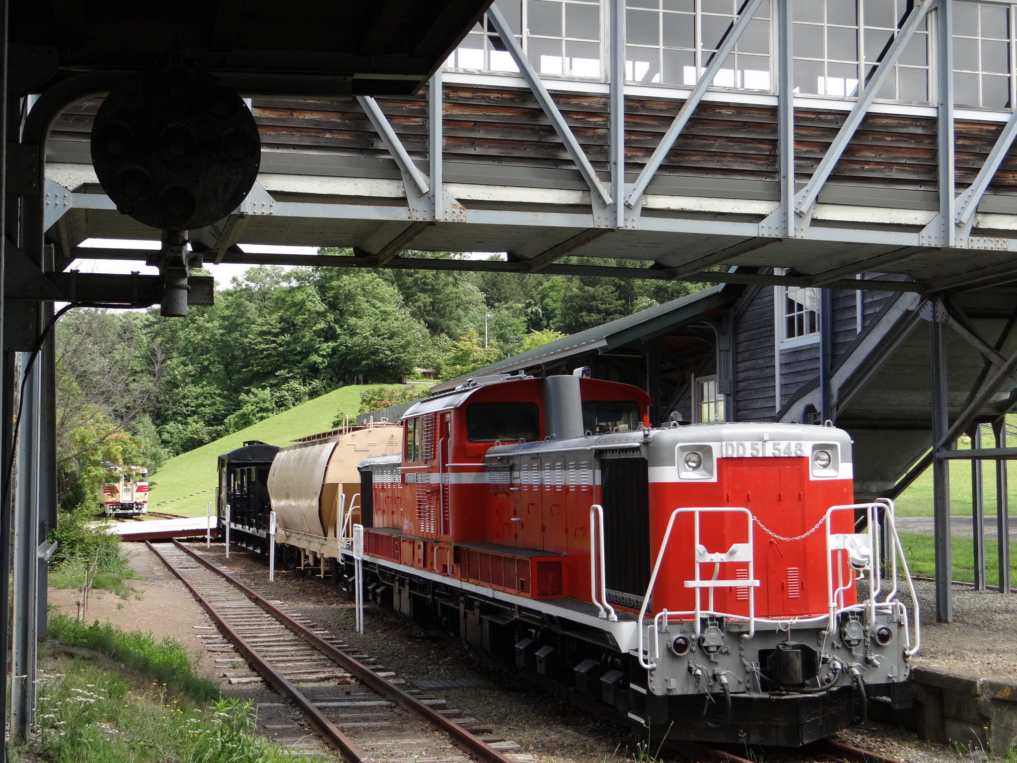 Preserved JNR Class DD51 diesel locomotive DD51 548 at the Mikasa Railway Village in Mikasa, Hokkaido